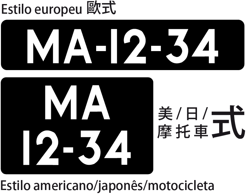 macau licence plates